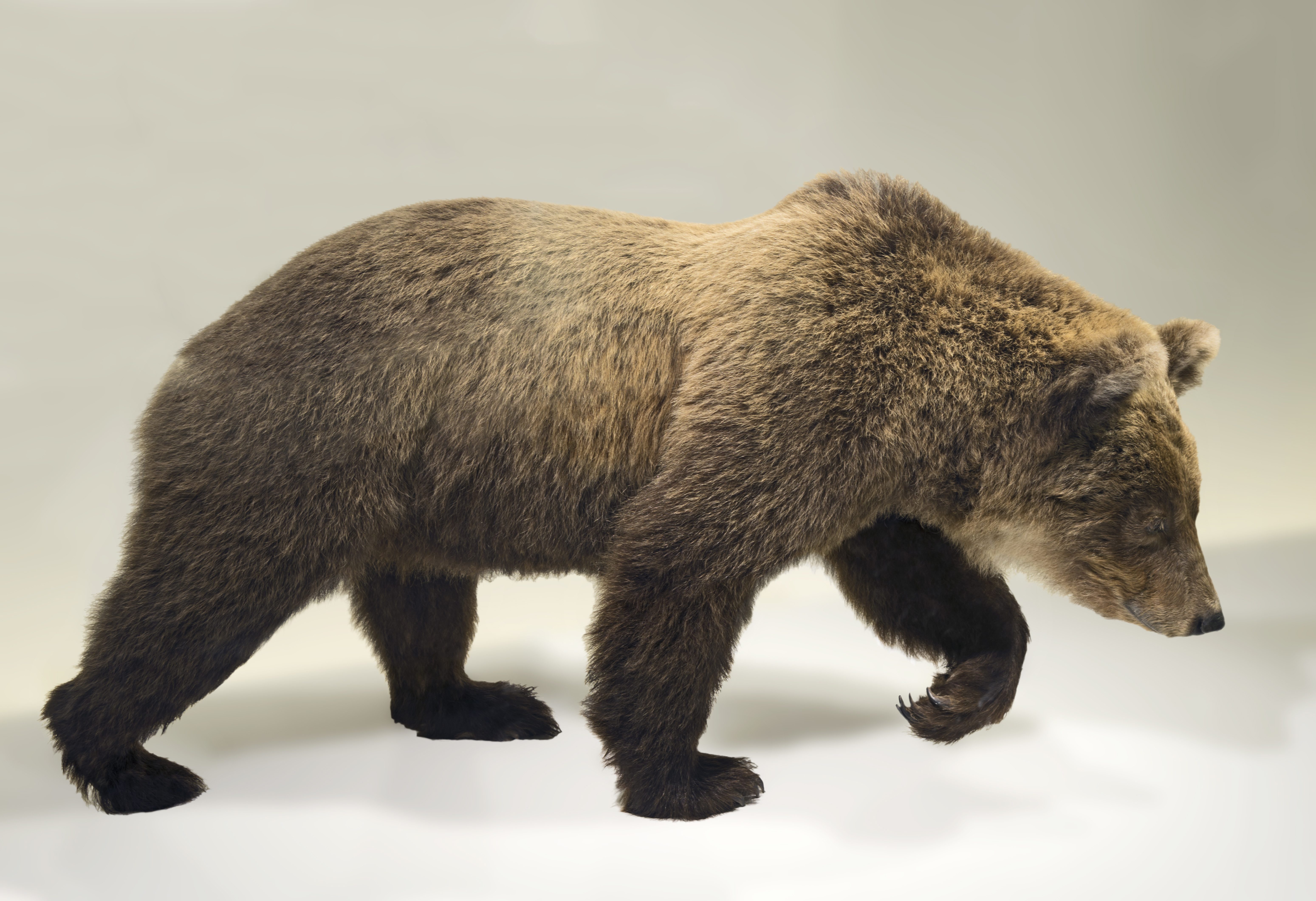 “Cannelle” Last representative of a bear population in the Pyrenees. She was shot on November 1, 2004 by a hunter. It is part of the collections of the Museum of Toulouse. Height: 2,28 m x 0,72 m and a weight of 80Kg.